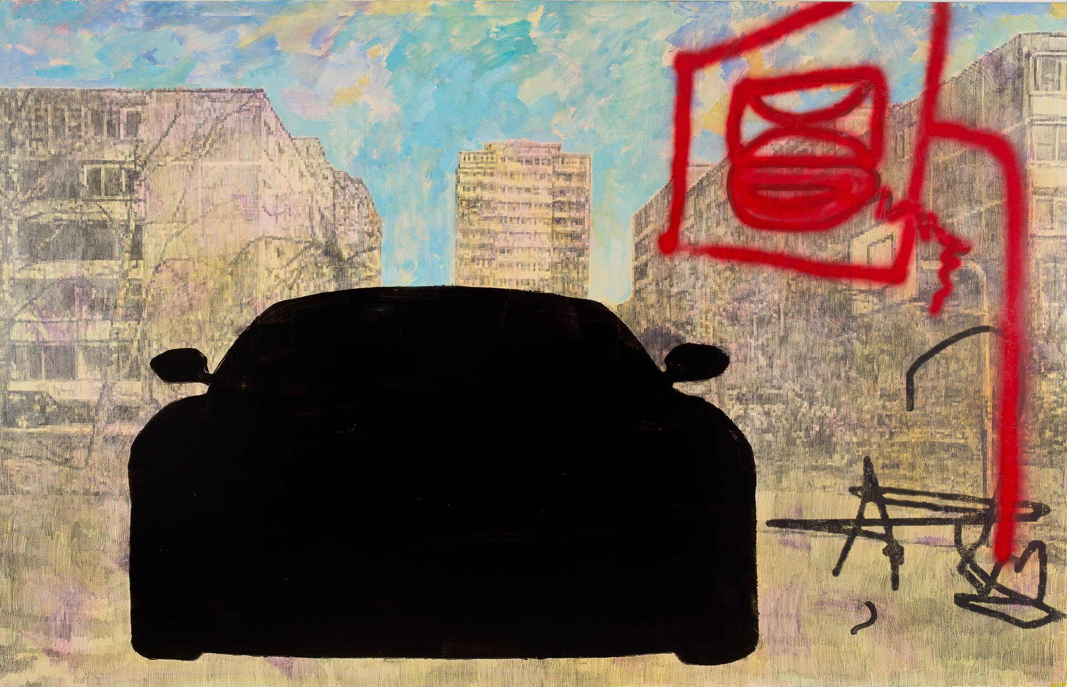 Here is my painting, the photo is bigger resolution than downloded before